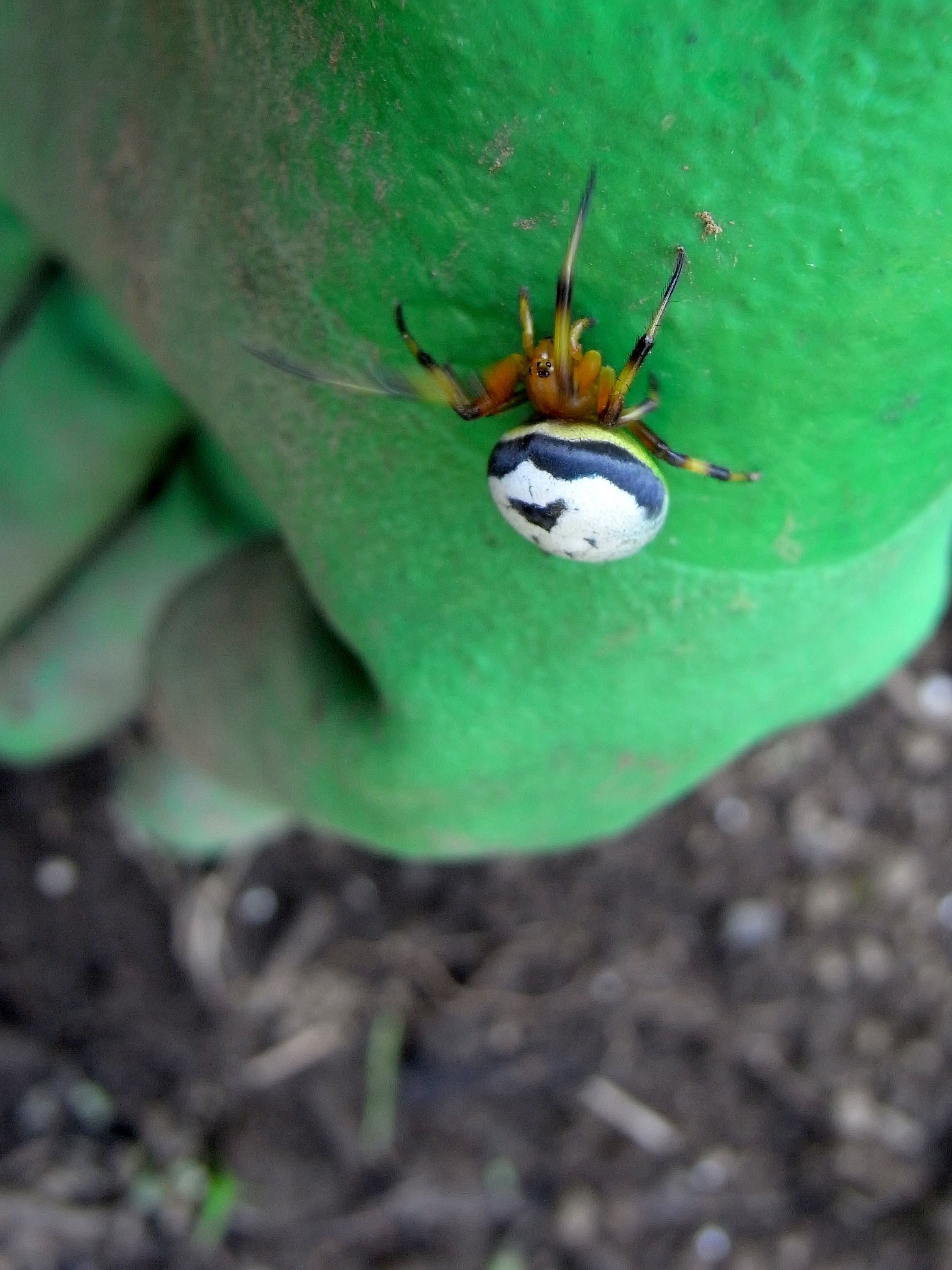 ビジョオニグモ（美女鬼蜘蛛） The spider climbing up my garden glove.